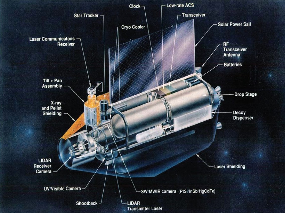 This image shows the Brilliant Pebbles interceptor in its "life jacket", which provides power, communications and basic alignment information via the star tracker. The IR seeker at the front of the pebble is left uncovered so it can look for missile launches.